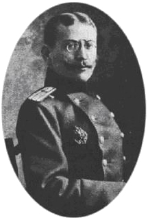 Alexander A. Maximow, Portrait of the scientist